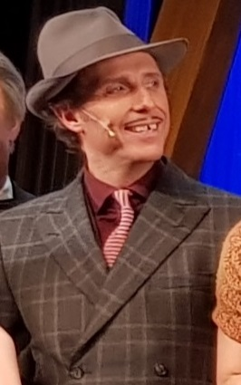 Kalle Rydberg as Rooster Hannigan during Annie at Nöjesteatern in Malmö, Sweden.